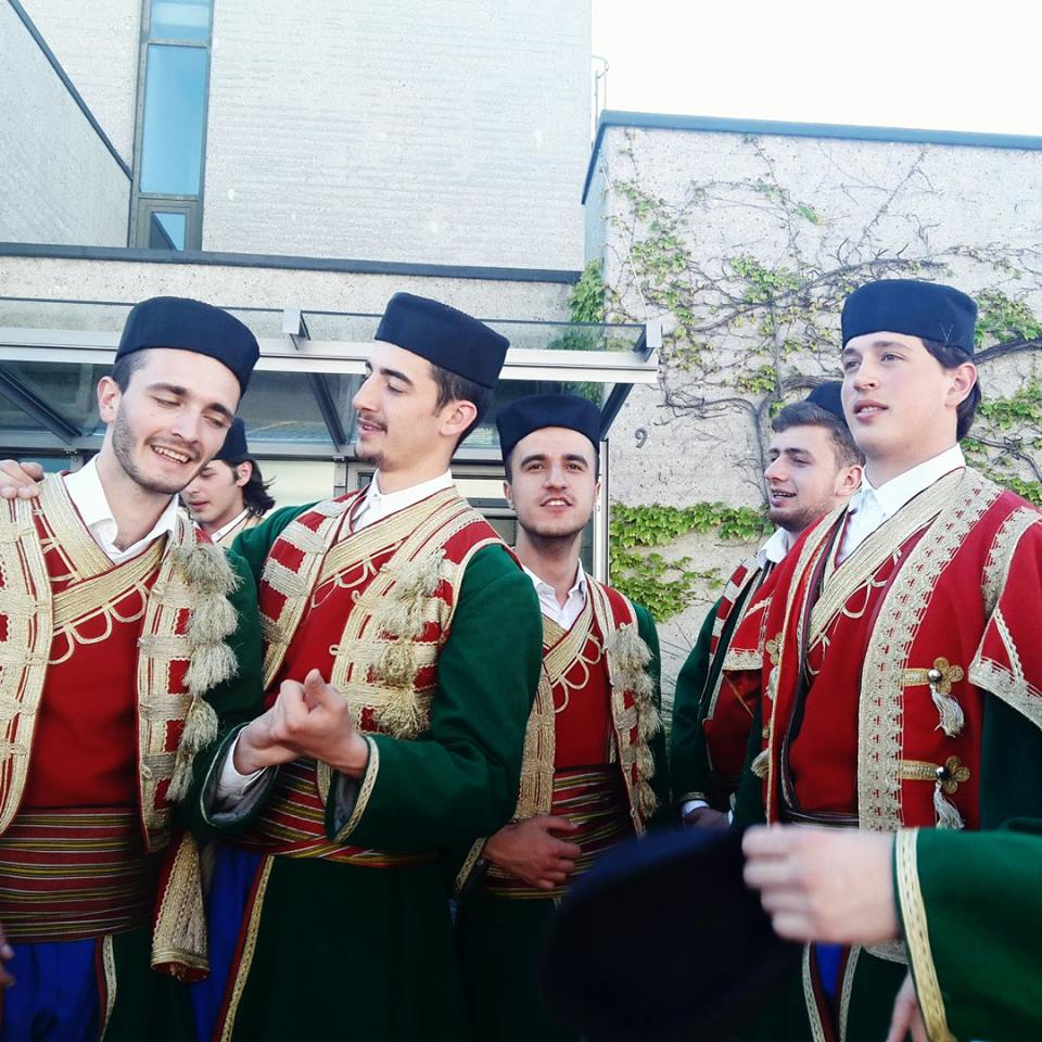 National wear of Montenegro